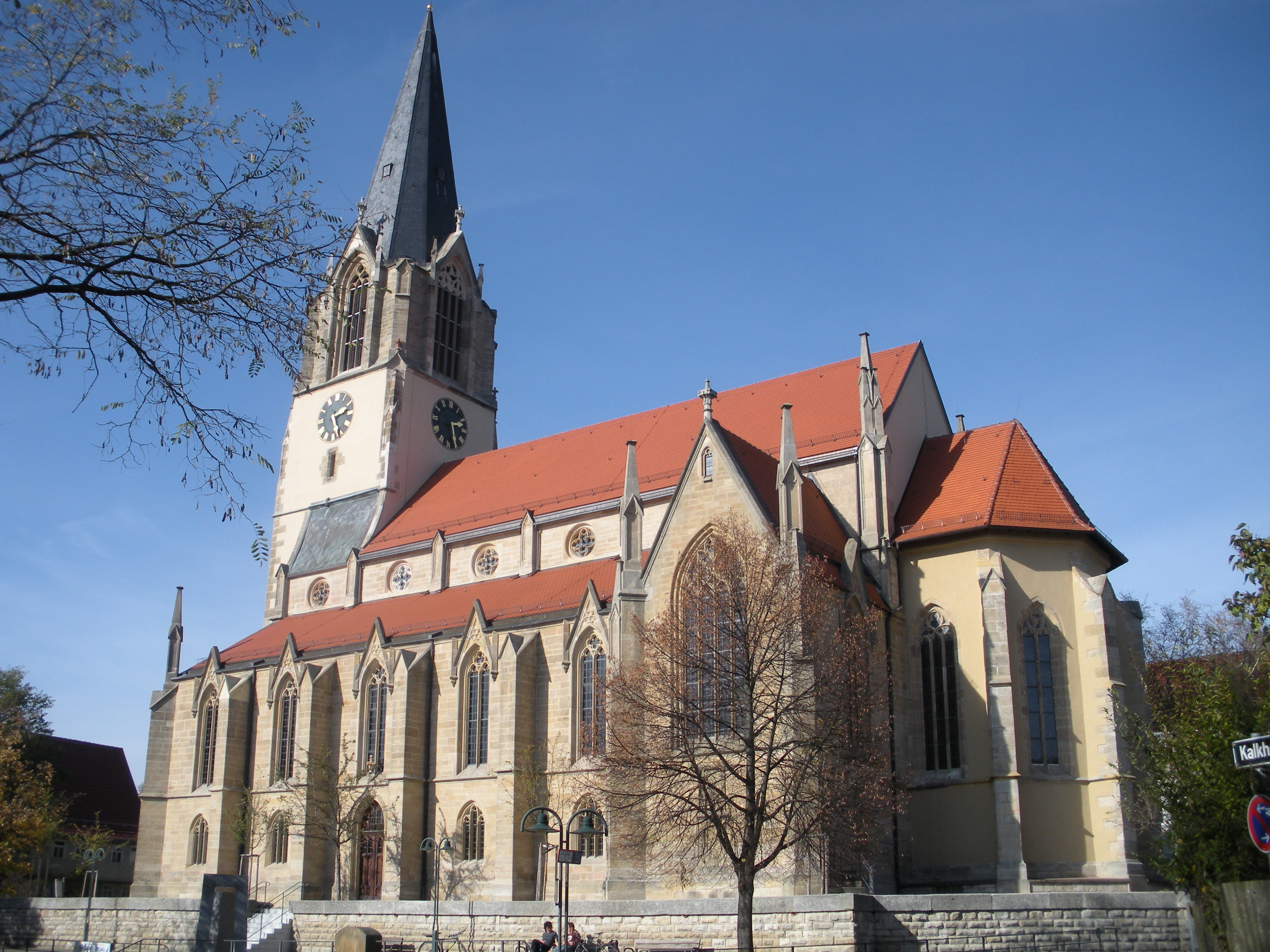 Protestant Church of Martin in Stuttgart-Möhringen